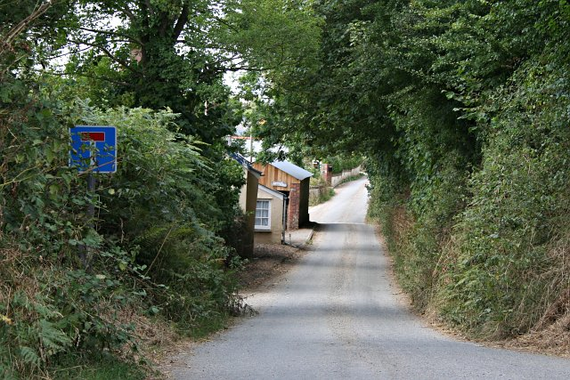 The Road to Mixtow. This road eventually ends in a dead end but not for another kilometre.